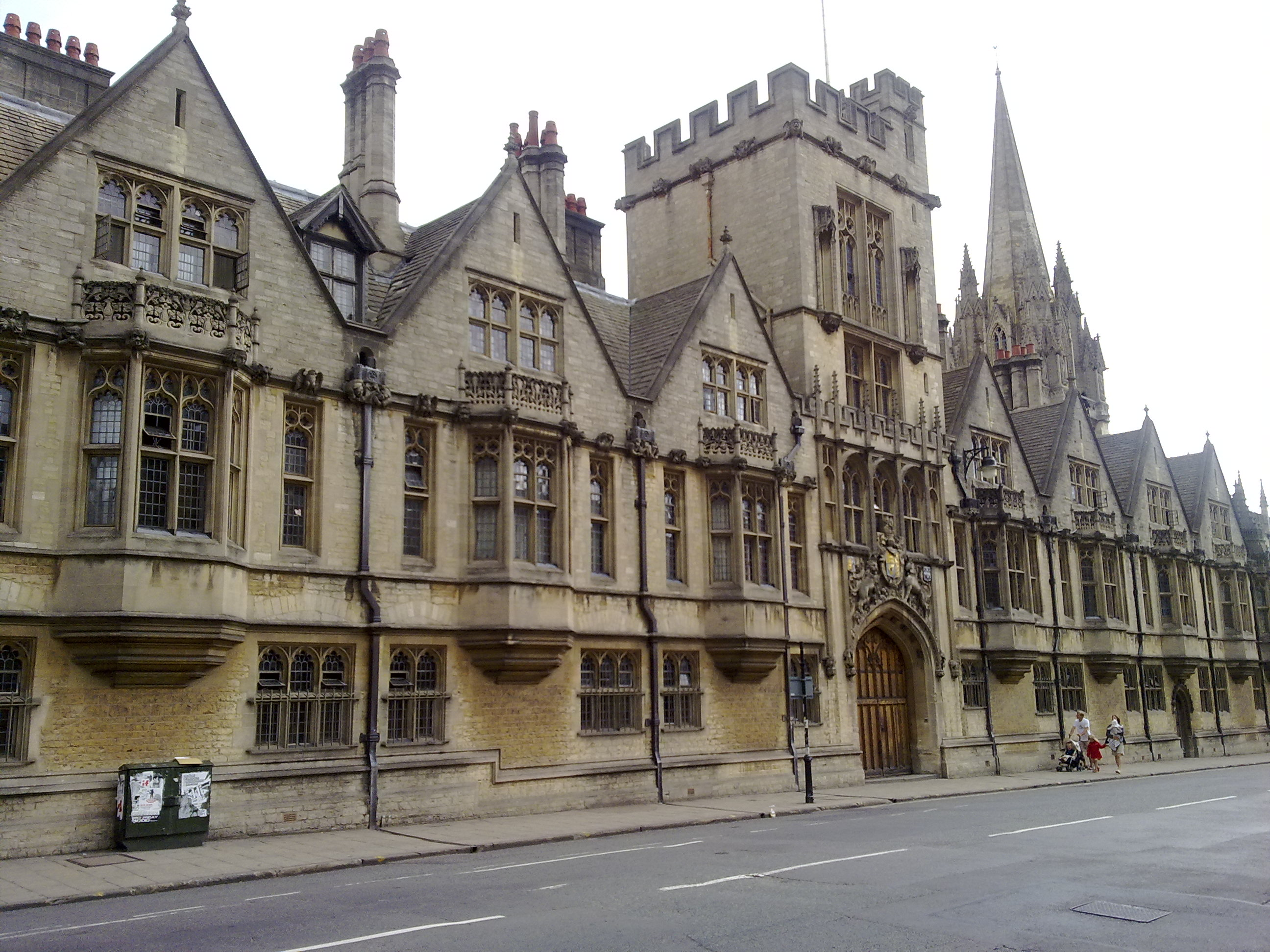 Brasenose College as it fronts onto the High Street, with St Mary's in the background.